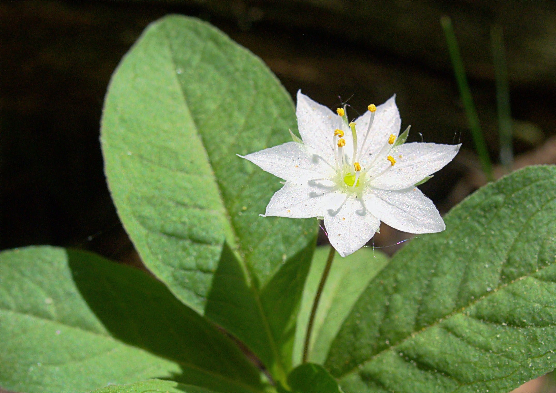 Name: Trientalis europaea. Family: Myrsinaceae. Location: Münster, NRW, Germany